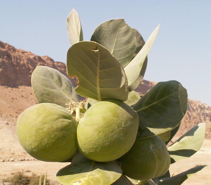 Apple of Sodom (Calotropis procera). --dysmorodrepanis. This fruit is called Tapuach Sdom in Hebrew.